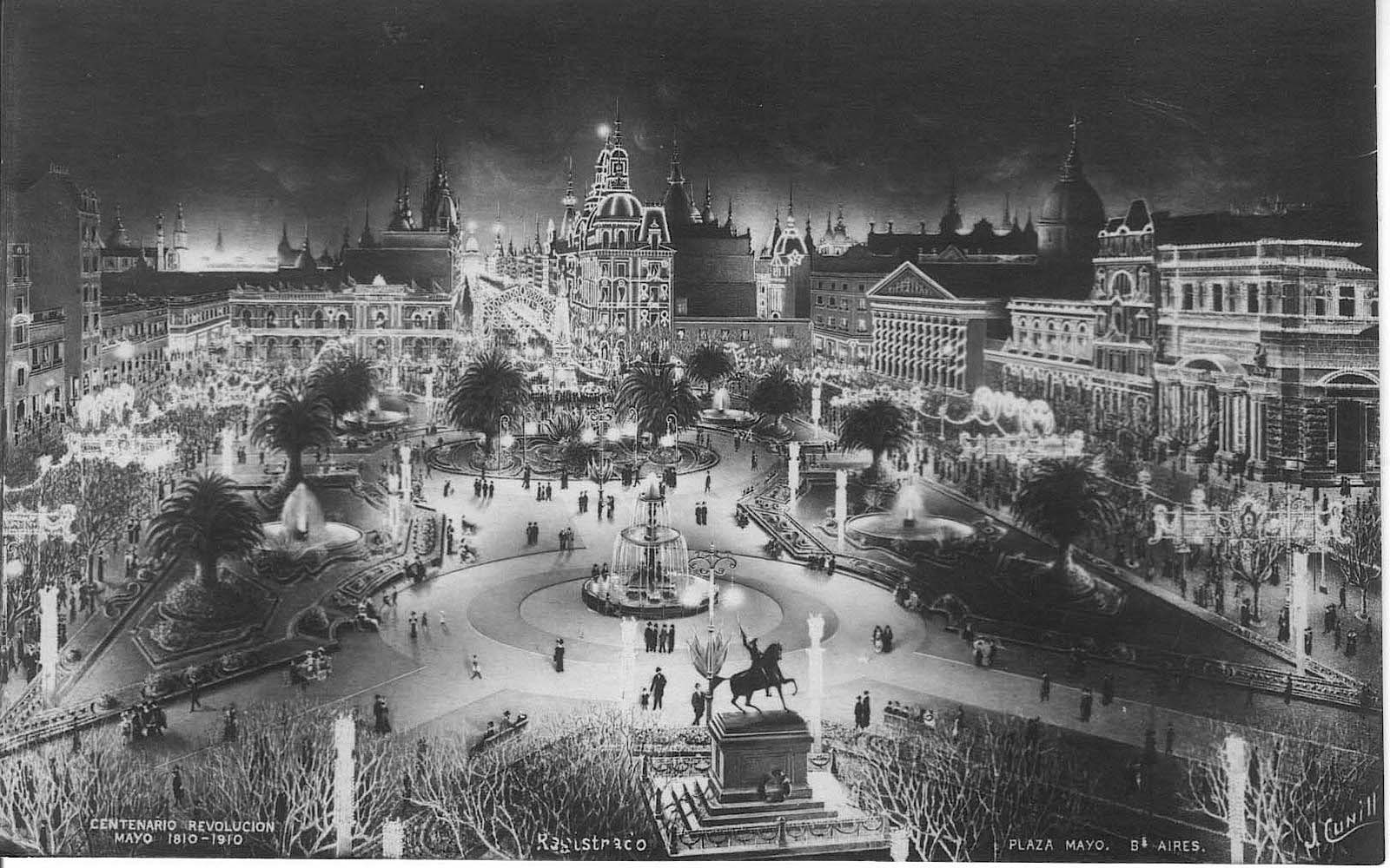 Buenos Aires, 1910